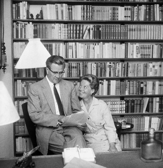 Photograph of the Finnish actor Hannes Häyrinen (1914–1991) and his wife Liisa Nevalainen (1916–1987) at their home.